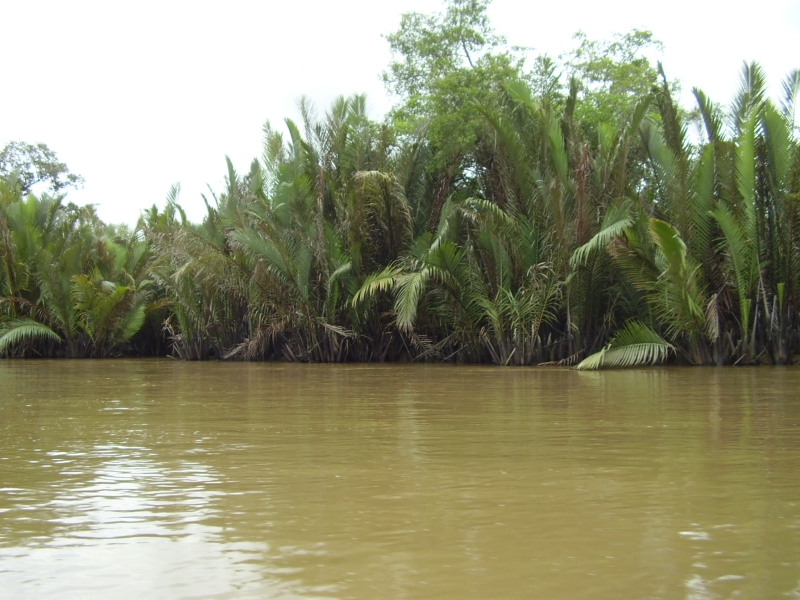 nypha at mahakam delta